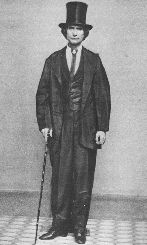 A photograph of Winchester Colbert taken in the mid 1800s. Colbert was the second governor of the Chickasaw Nation.